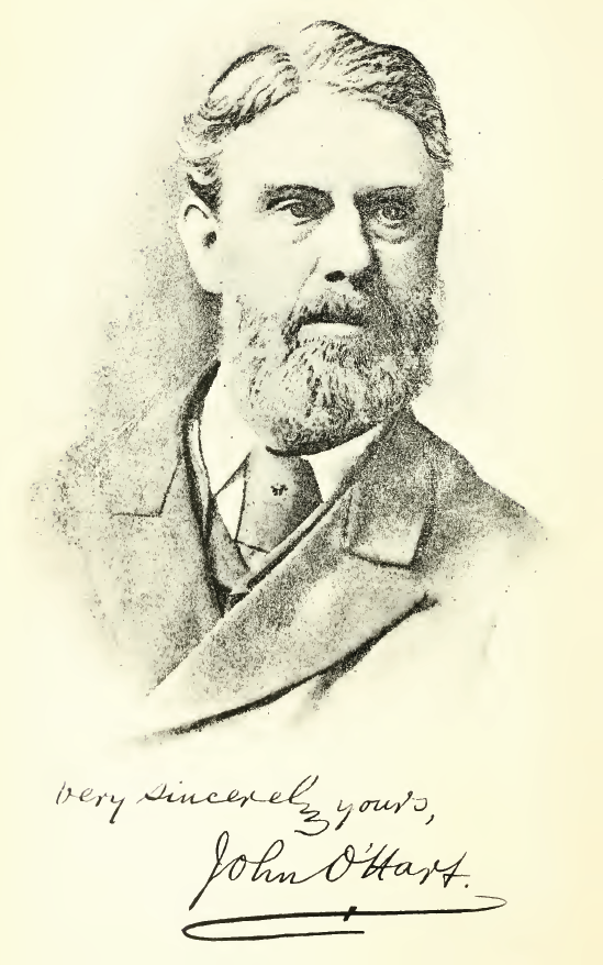 This image was first published in; Irish pedigrees; or, The origin and stem of the Irish nation (1892), by John O'Hart, - Volume: 1. The image is more than 100 years old and is out of copyright. Its free for everyone to use.